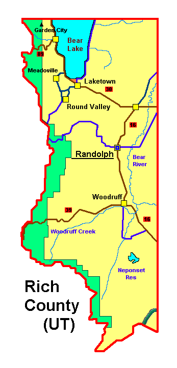 Rich County (UT) Details, selfmade graphic by R.Blauert Dk4hb